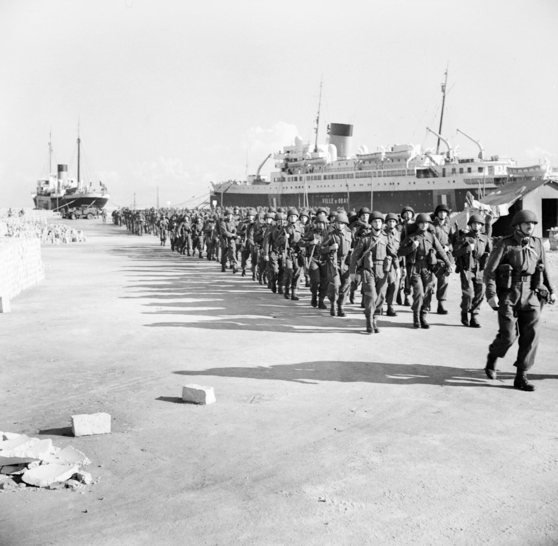 The Campaign in North Africa 1940-1943 The Axis retreat and the Tunisian campaign 1942 - 1943: British paratroops march away after landing at Algiers.